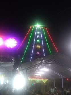 The marriage of Nandhi at Tirumalapadi in Ariyalur district of Tamil Nadu, India